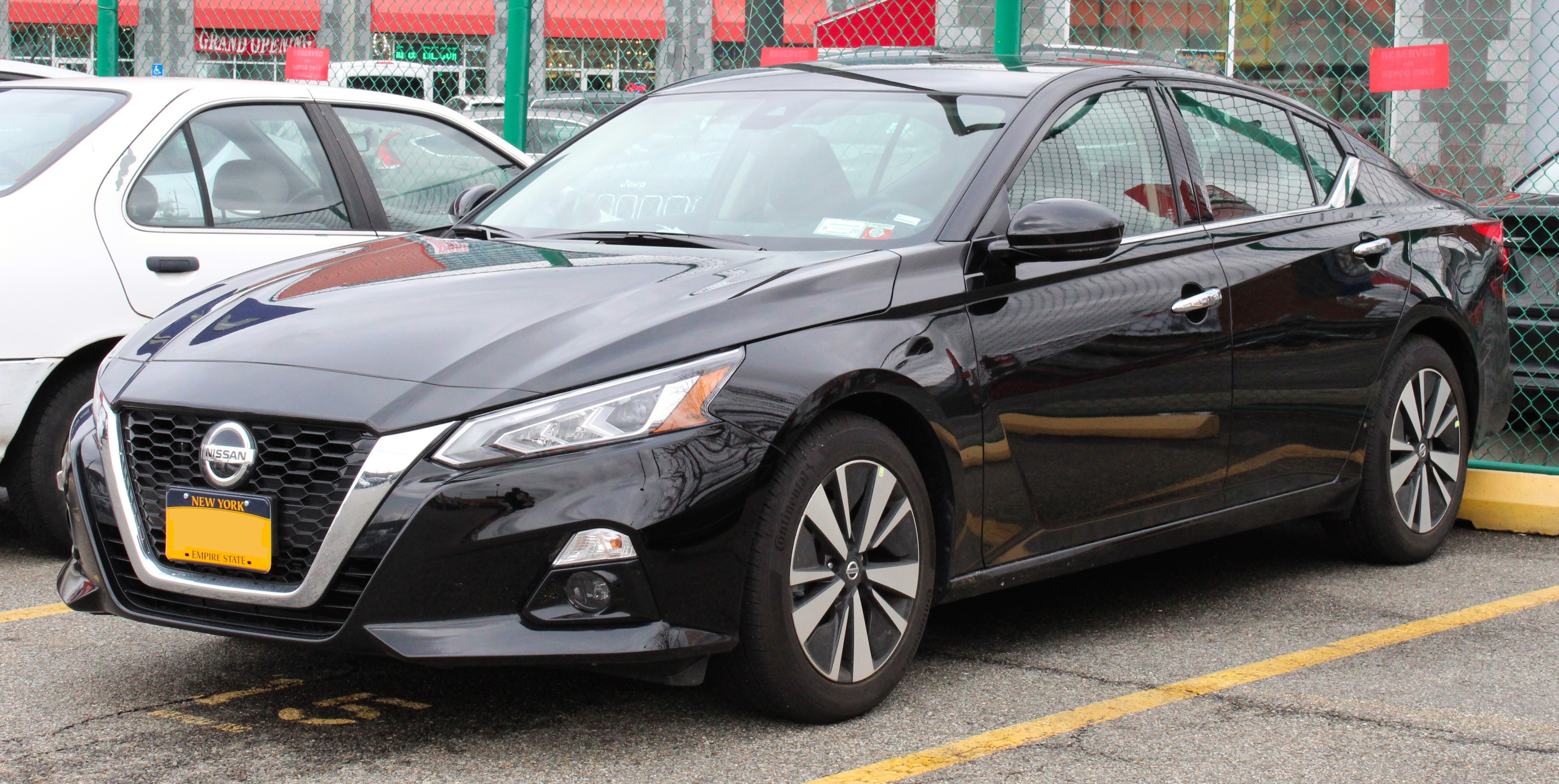 A 2019 Nissan Altima SL 2.5L photographed in Flushing, Queens, New York, USA